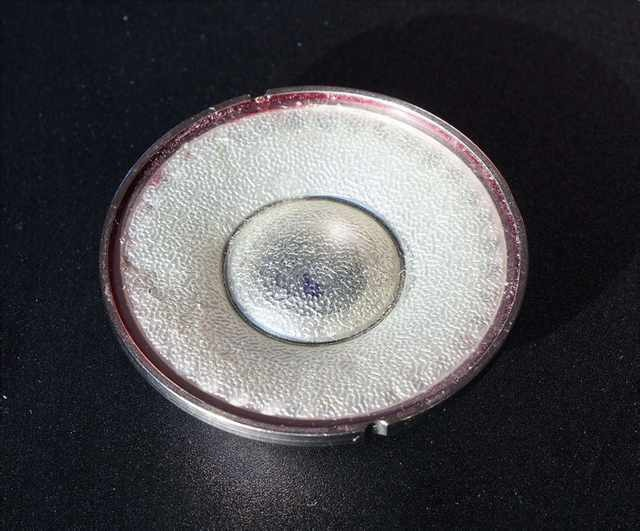 The most imoportant unit of the headphones！